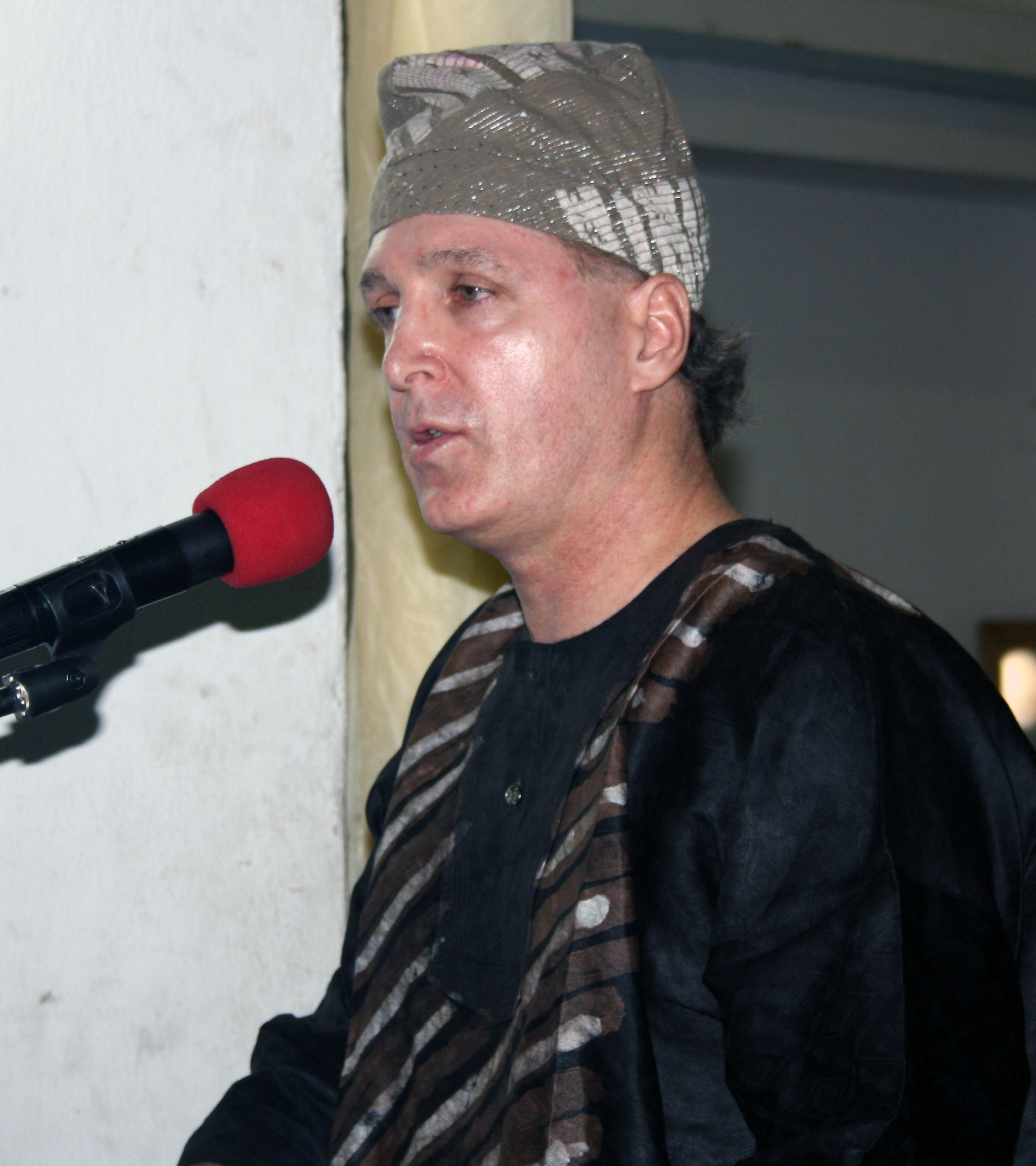 William J. Dominik delivering the Third Biennial Constantine Leventis Memorial Lecture at the University of Ibadan (2010)